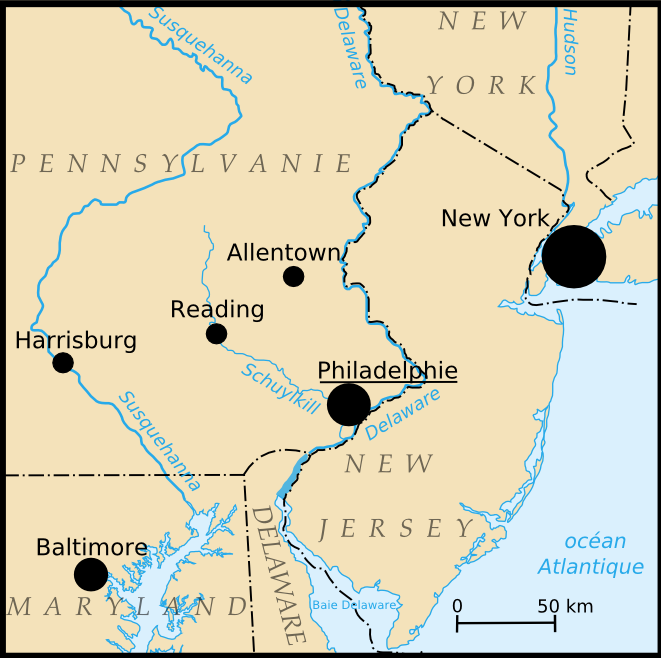 Map of Philadelphia (USA)